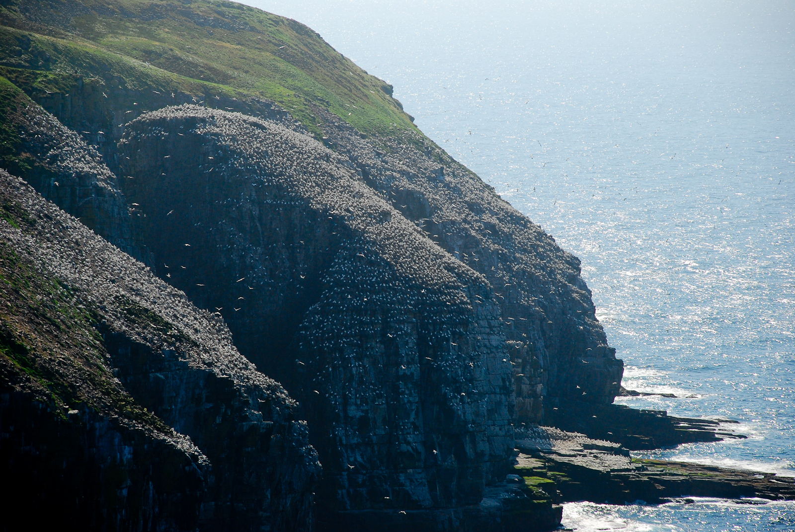 Photo of the Cape St. Mary's Ecological Reserve, showing the size of the Gannet breeding colony.